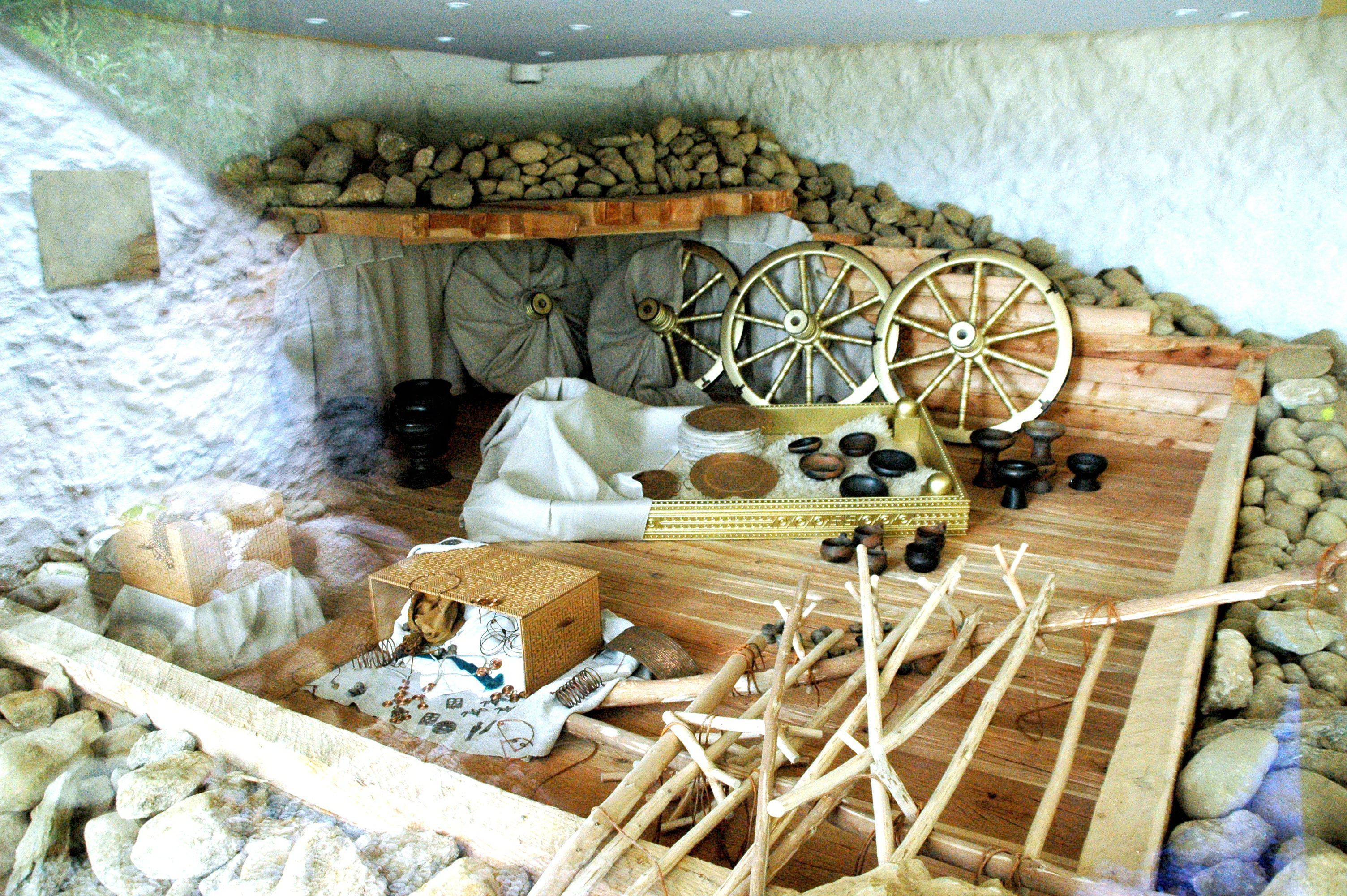 Celtic demonstration cairn at Froeg, municipality Rosegg, district Villach Land, Carinthia, Austria